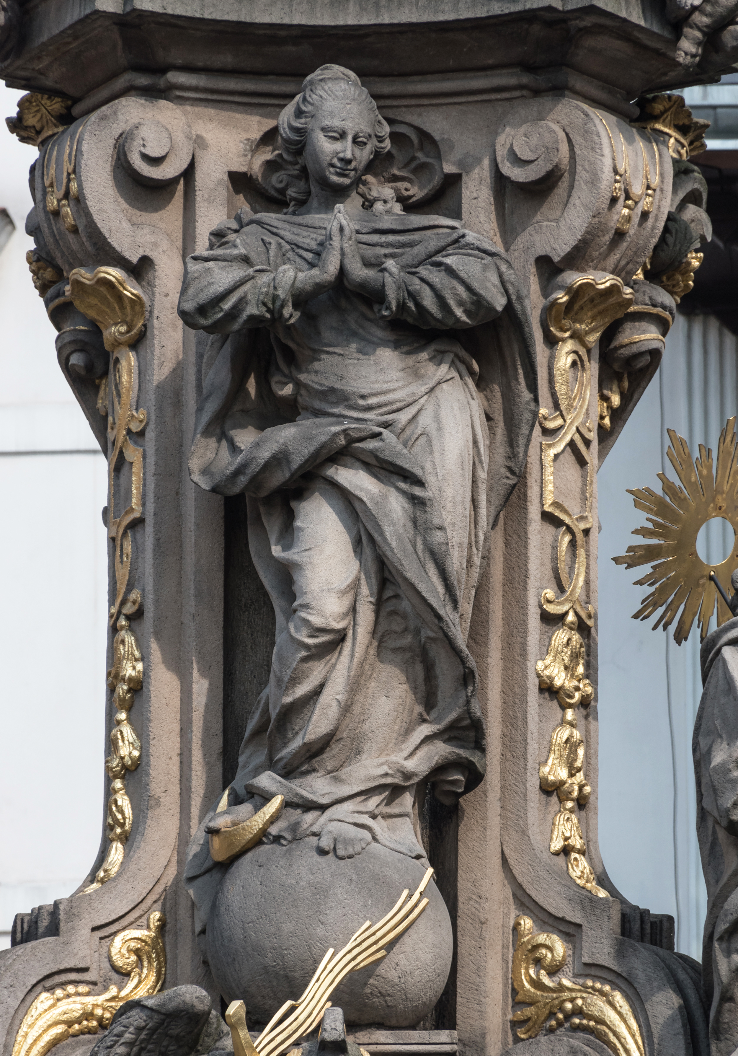 Trinity Column in Bystrzyca Kłodzka, Immaculata